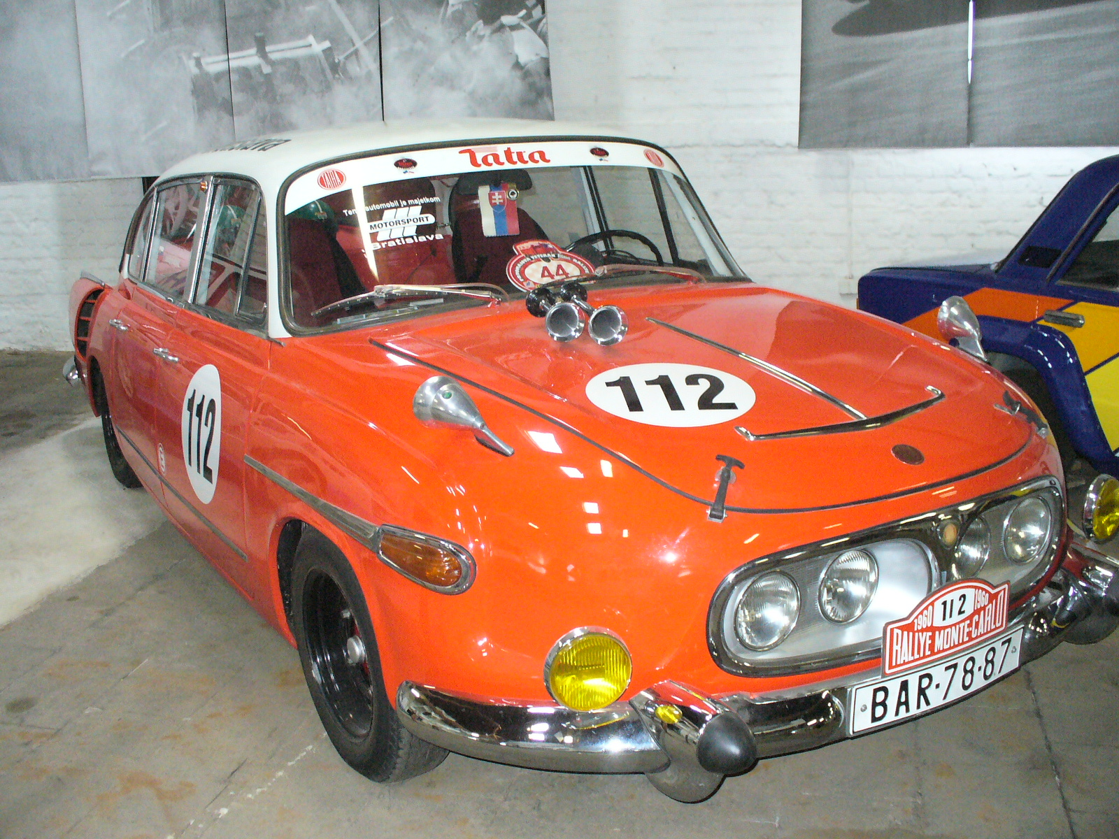 Tatra T2 603 Rallye (1960 year). Muzeum Dopravy Bratislava, Slovakia.